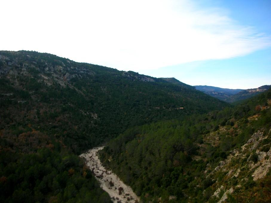 Riu Cérvol, seasonal river in Castellón Province, with the northern side of the Serra del Turmell rising above it on the left